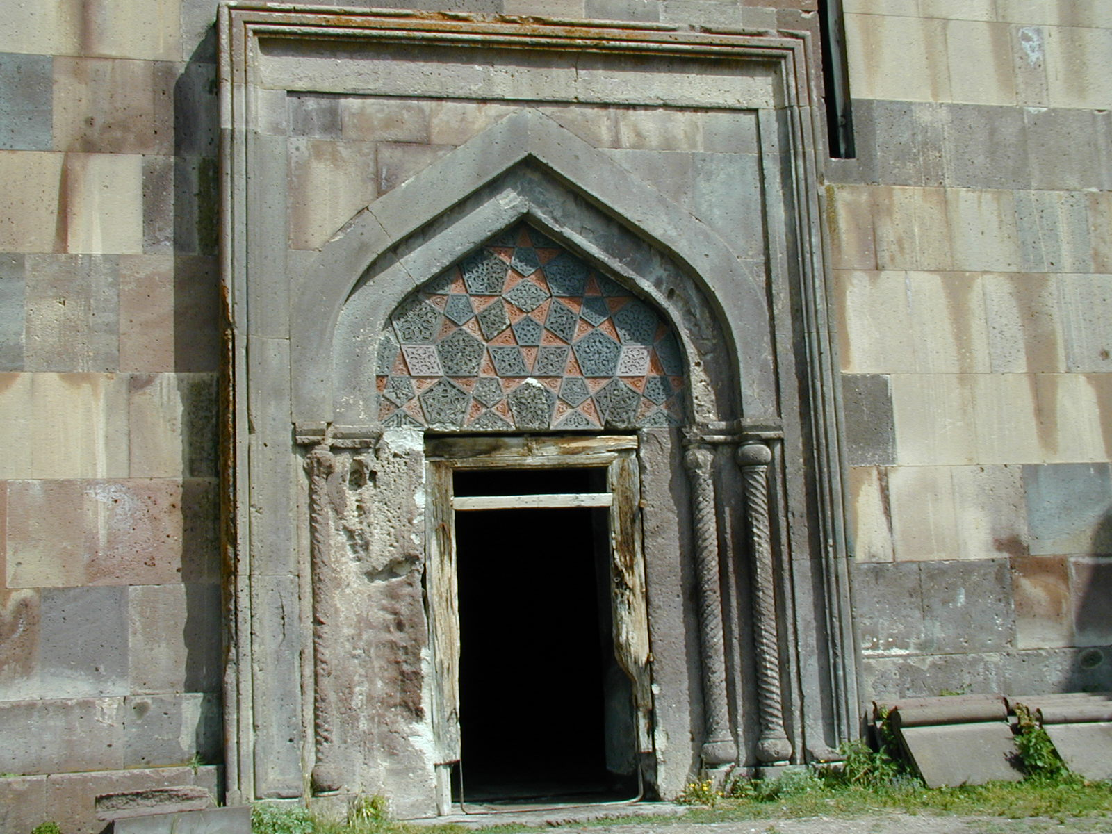 Portal, Haritchavank, Armenia.